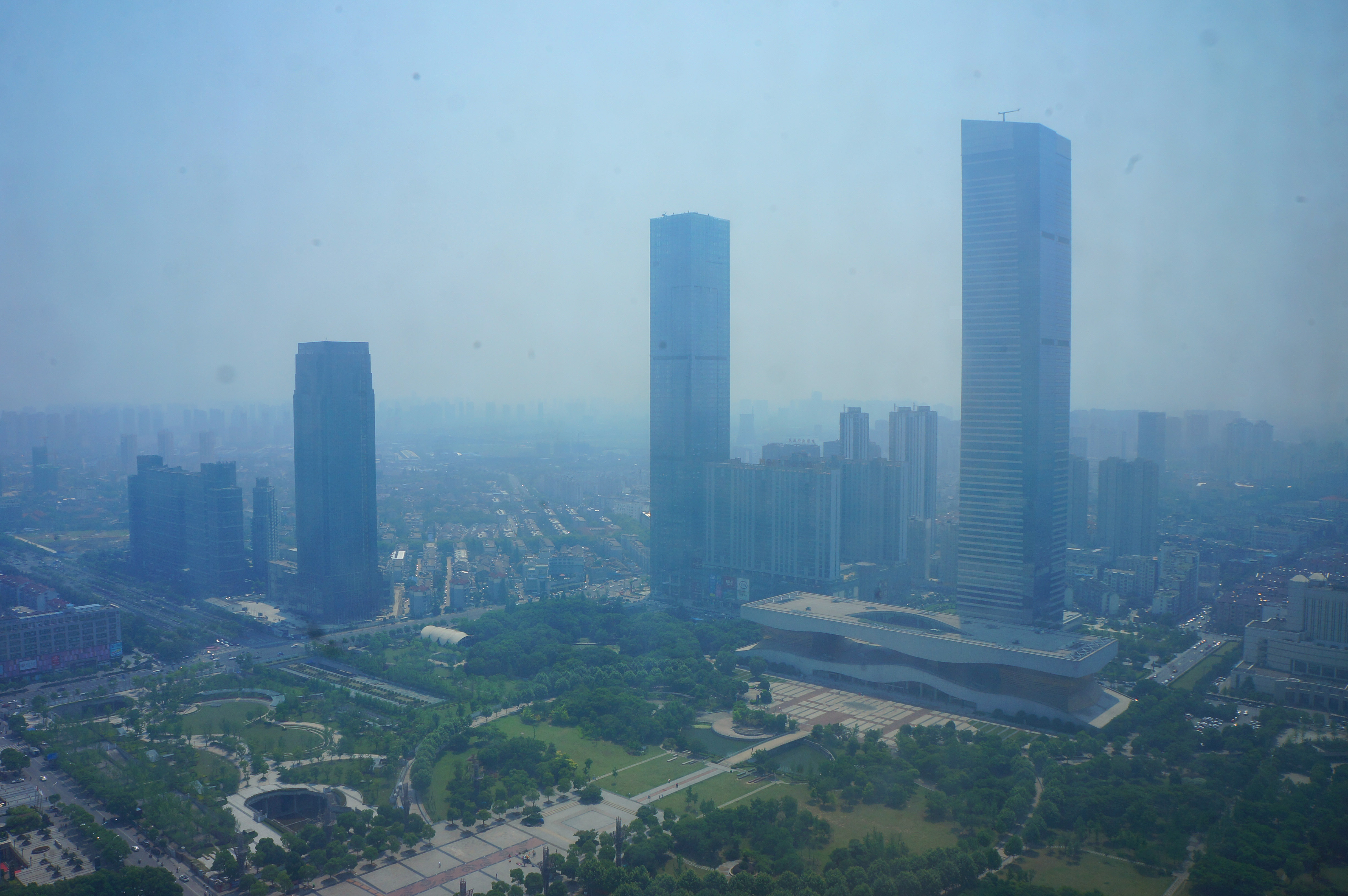 201705 Taihu Plaza and Maoye Plaza